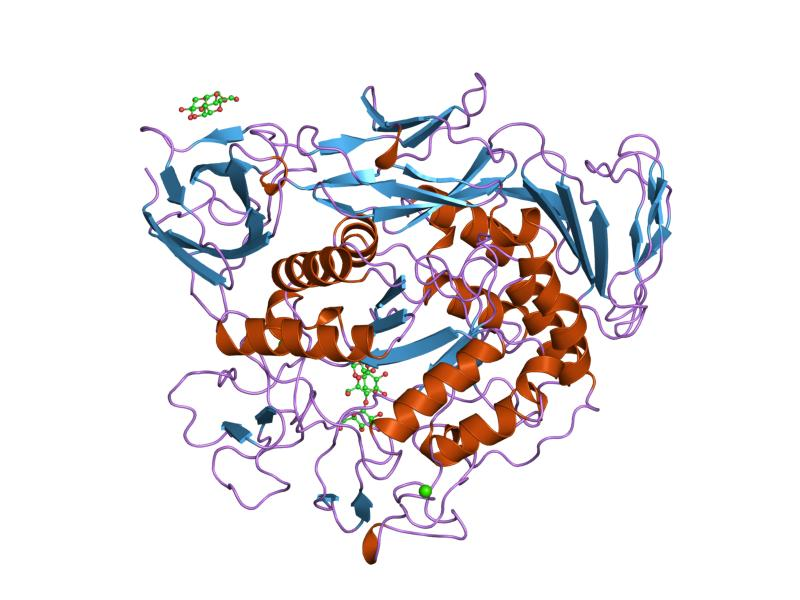 Cartoon representation of the molecular structure of protein registered with 5cgt code.